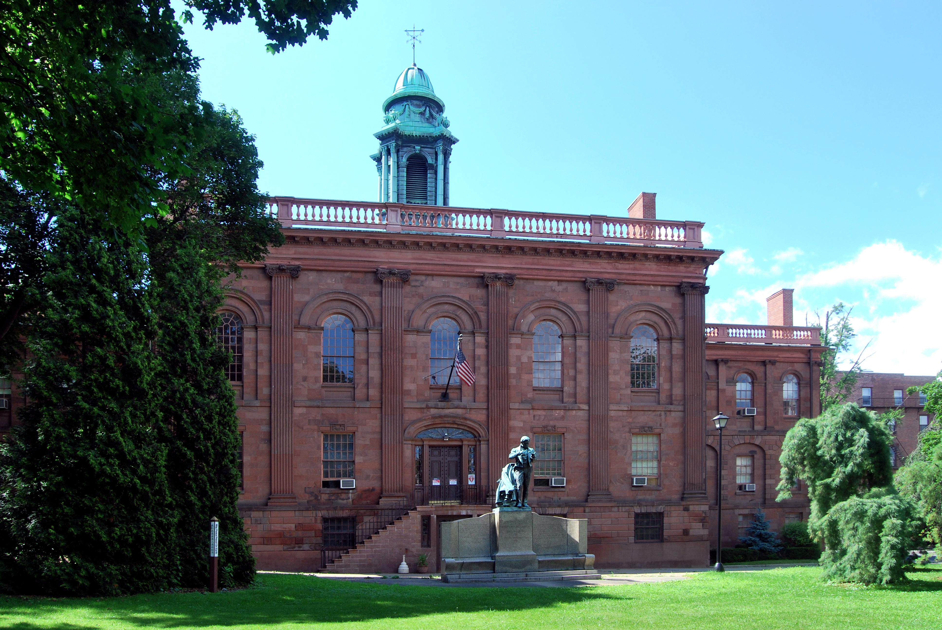 The Albany Academy, the original structure of the current institution; it currently houses the administrative offices of the City School District of Albany in Albany, New York